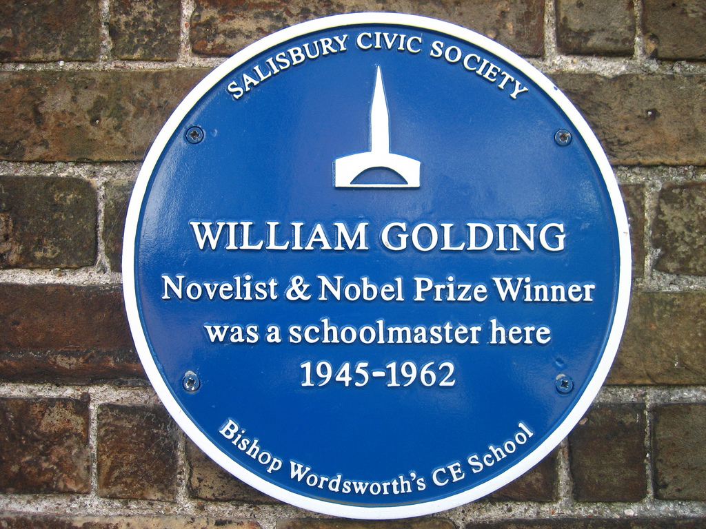 William Golding medal in his former school, Salisbury